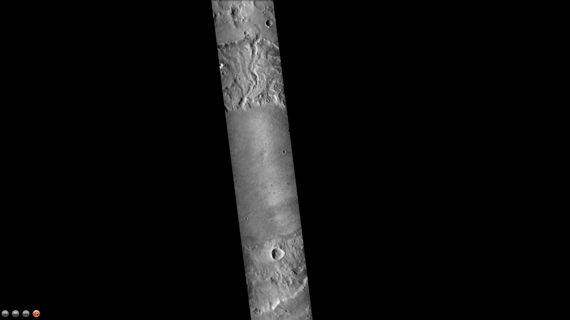 Teisserence de Bort Crater, as seen by CTX